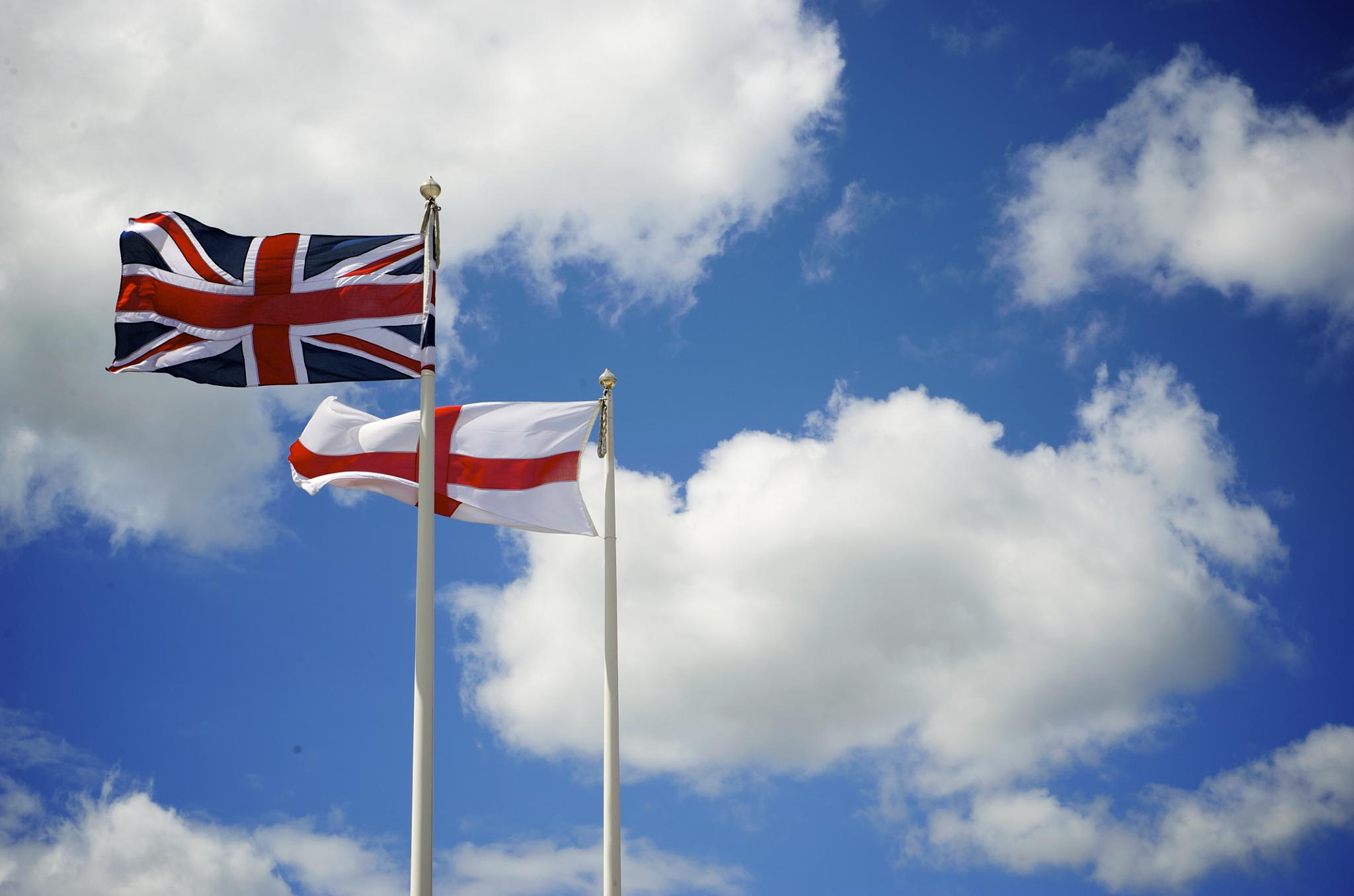 The flags of England and the United Kingdom. (Backwards)